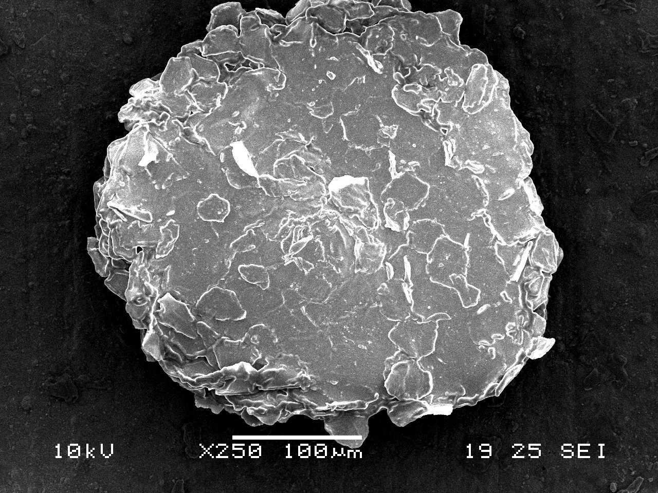 Scanning Electron Microscope picture of freshly prepared human dandruff sample.